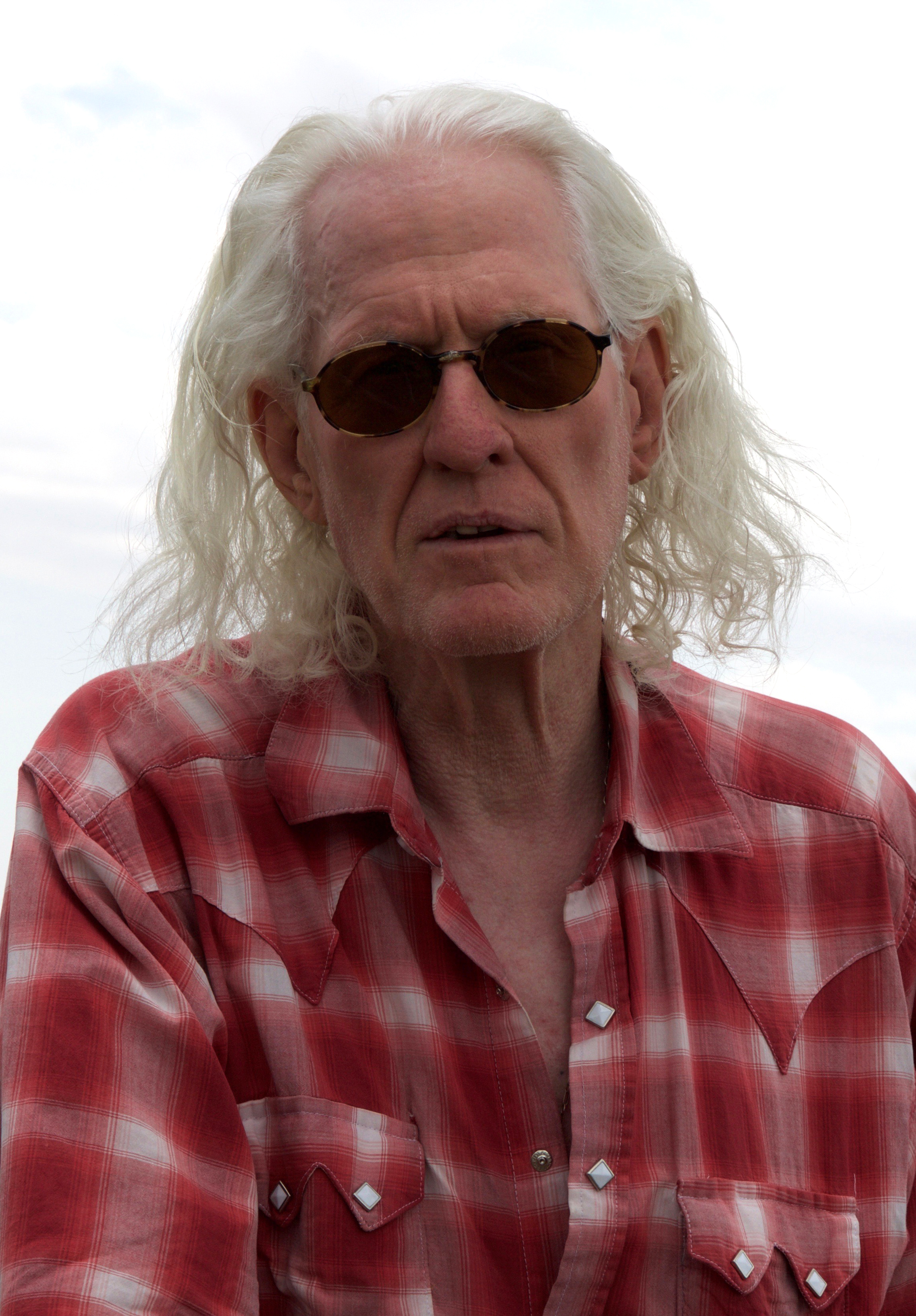 portrait